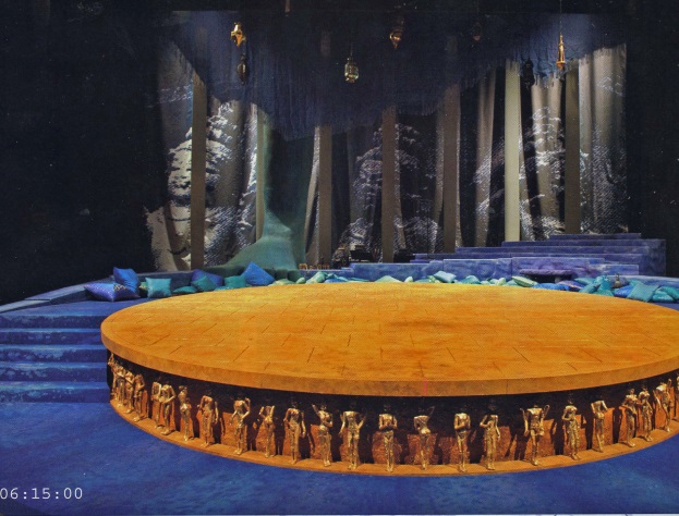 A photo of Christopher Acebo's set design for The Claycard in the Angus Bowmer Theatre of the Oregon Shakespeare Festival